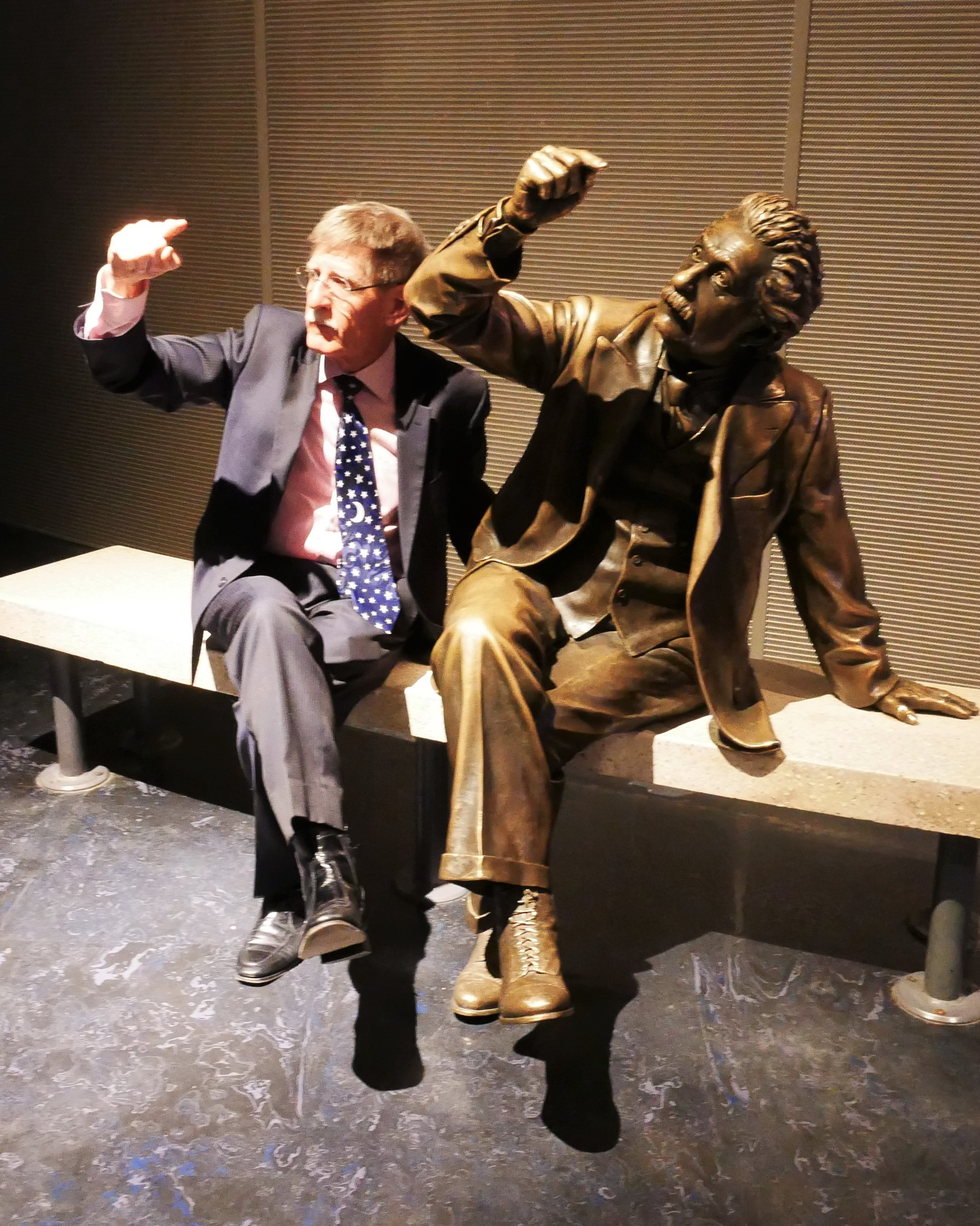 This is Ed Krupp sitting with Einstein looking at the Big Picture exhibit at the observatory